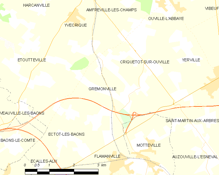 Map of French municipality Grémonville